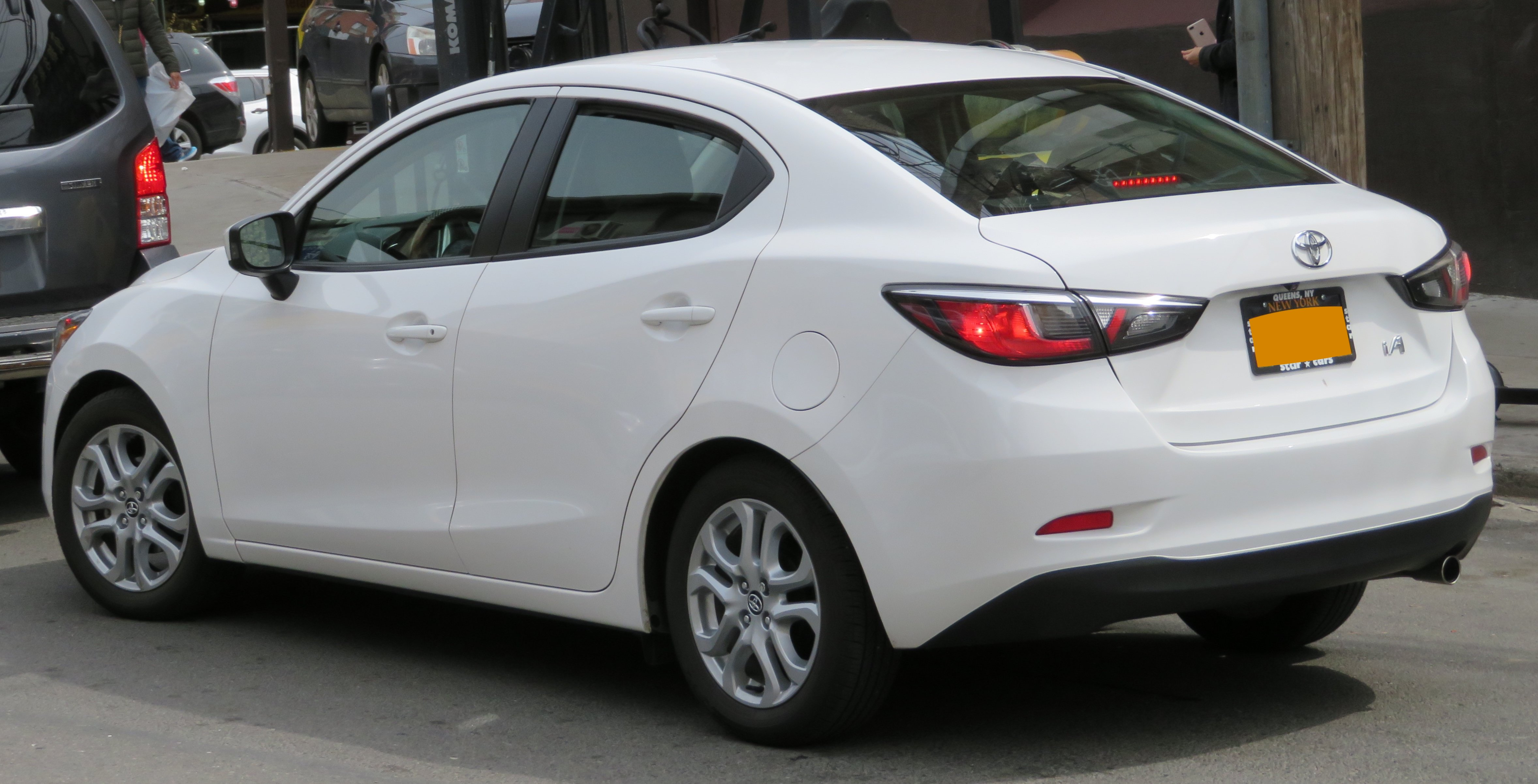 Used to called the Scion iA sedan, in Flushing(Queens), New York.